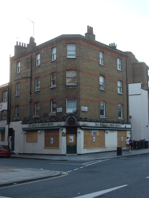 Sea Shell of Lisson Grove